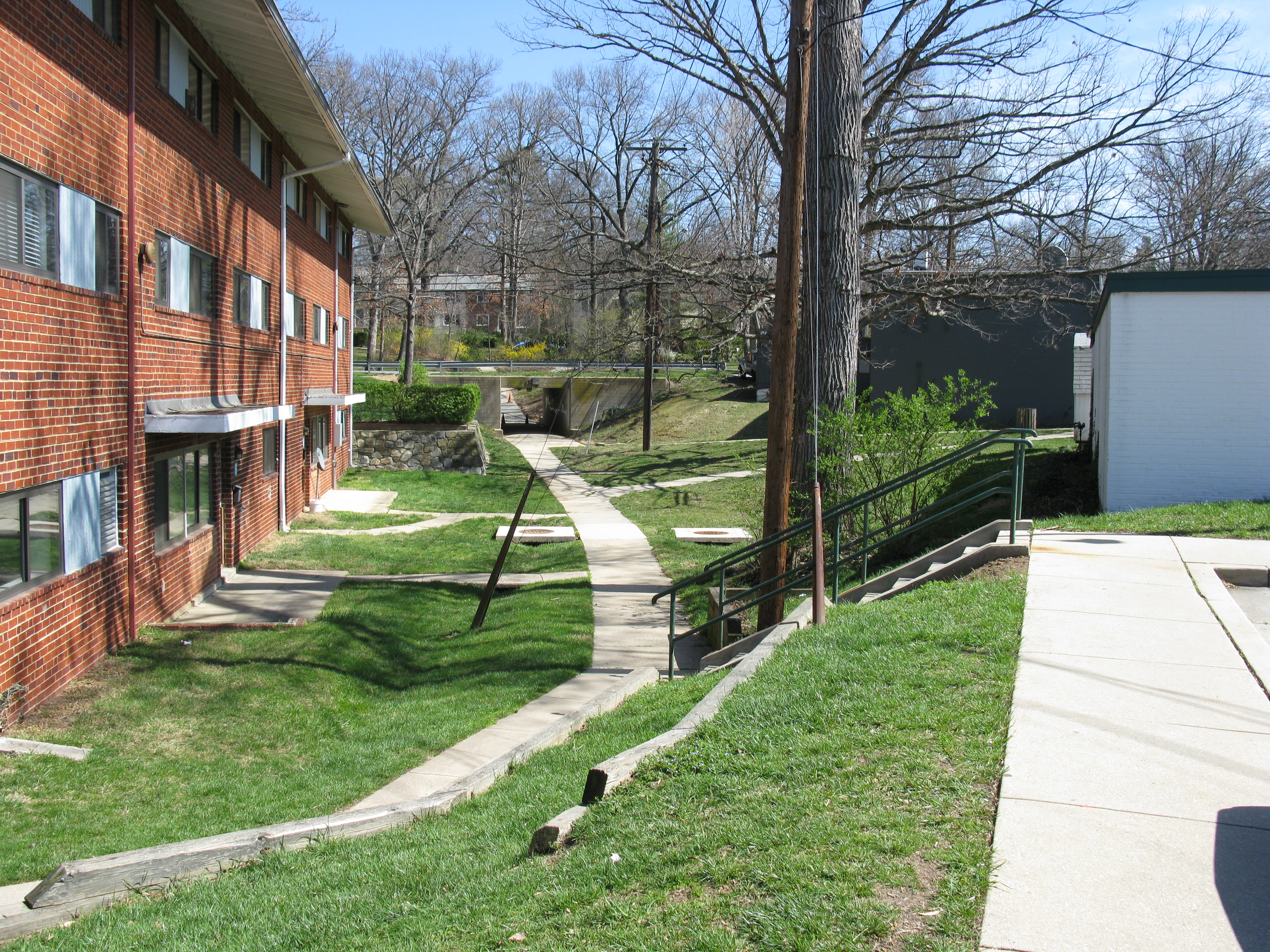 A grade-separated pedestrian-roadway crossing beneath Crescent Road in Greenbelt, Maryland